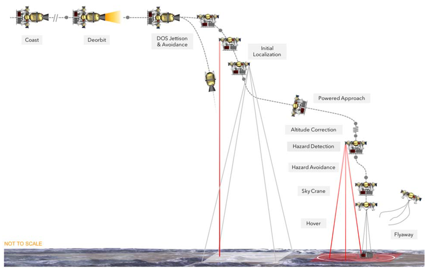 Europa Lander mission : Notional-DDL-Sequence-of-Events